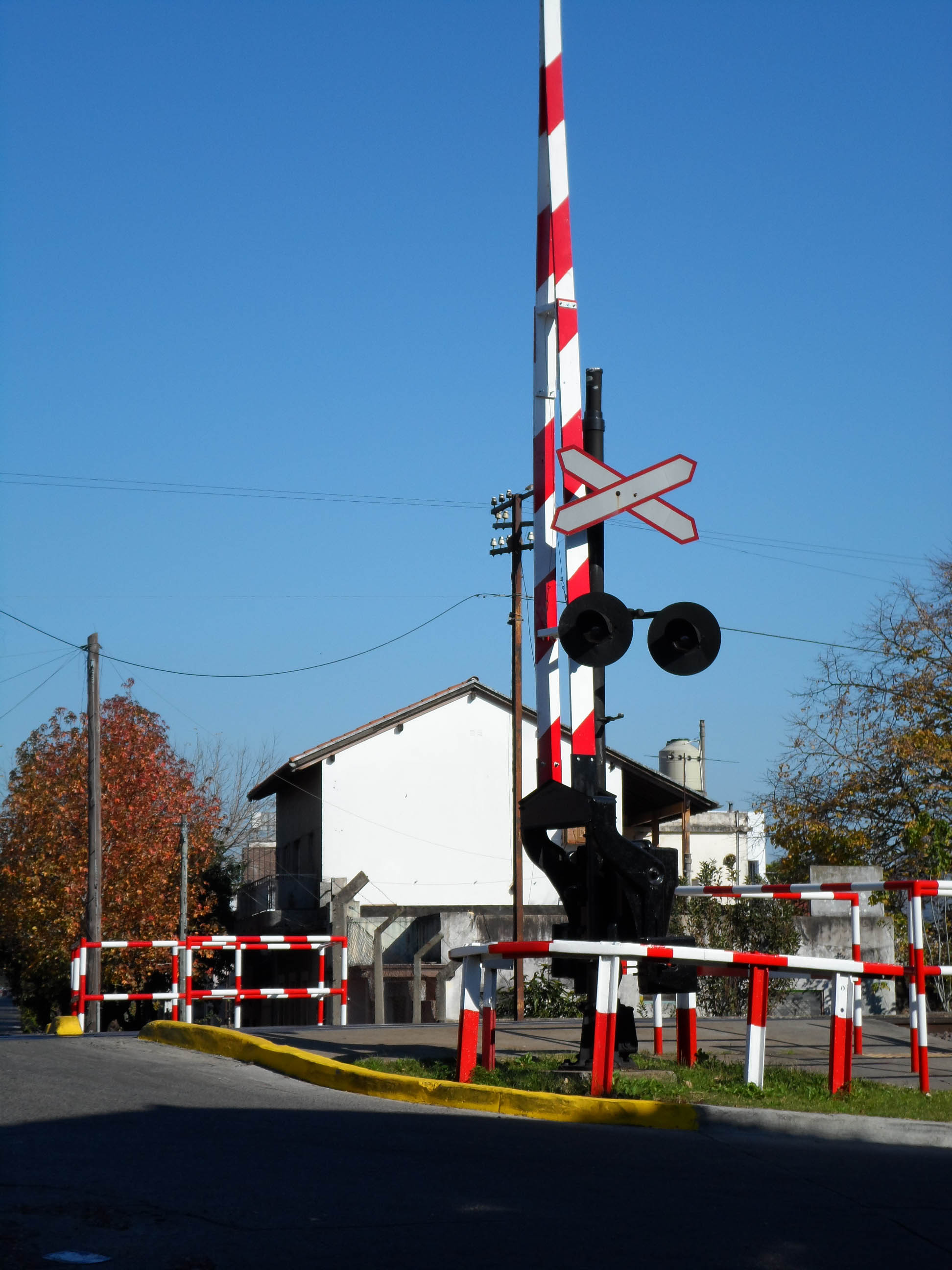 Grade crossing signal on the intersection of Julio A. Roca street and Ferrocarril Manuel Belgrano rail tracks in Florida, Buenos Aires. The device was manufactured by US company GRS, being in optimal conditions at the date. The original crossbuck and bell were replaced by the concessionaire of the line, "Ferrovías".